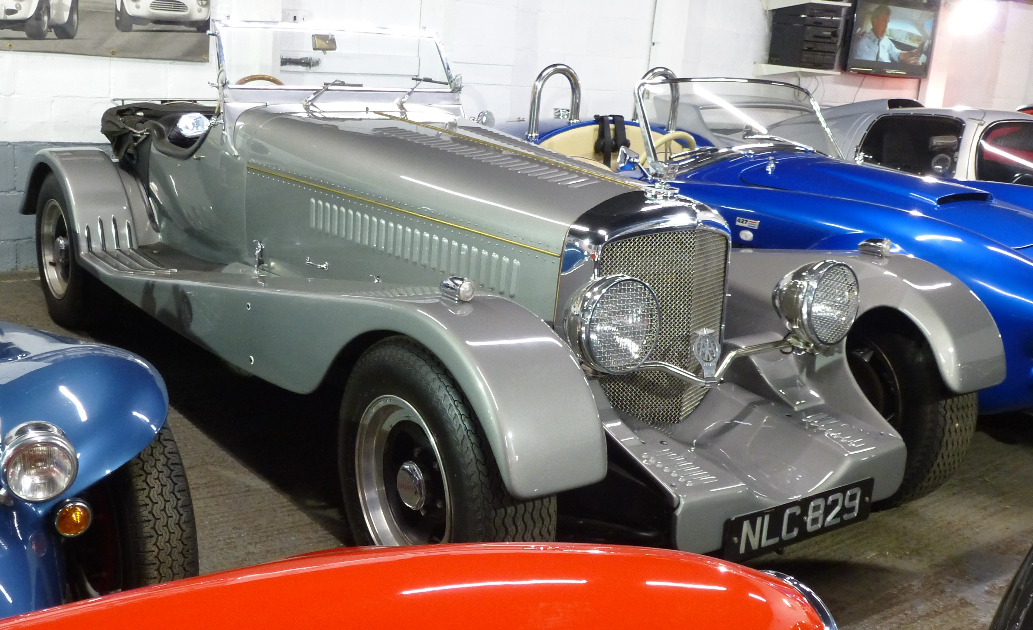 Johnard Donington